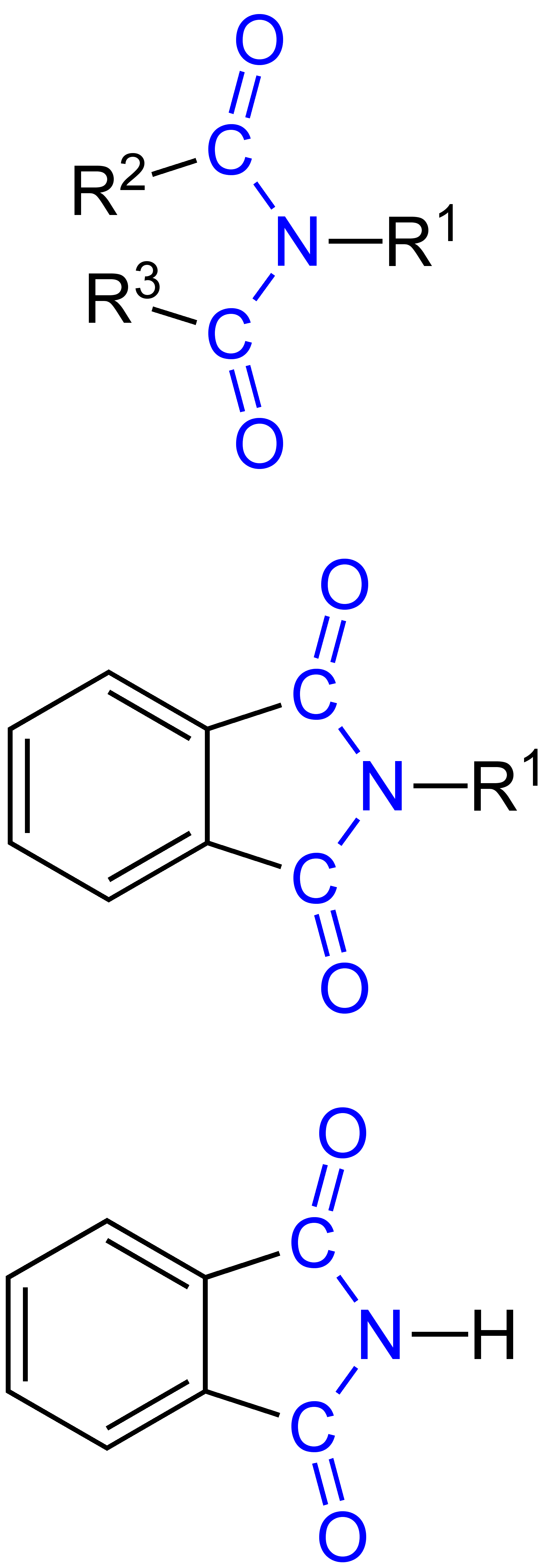 Imide_Group_General_Formulae